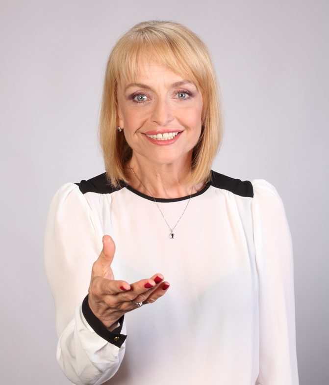 Camellia Todorova